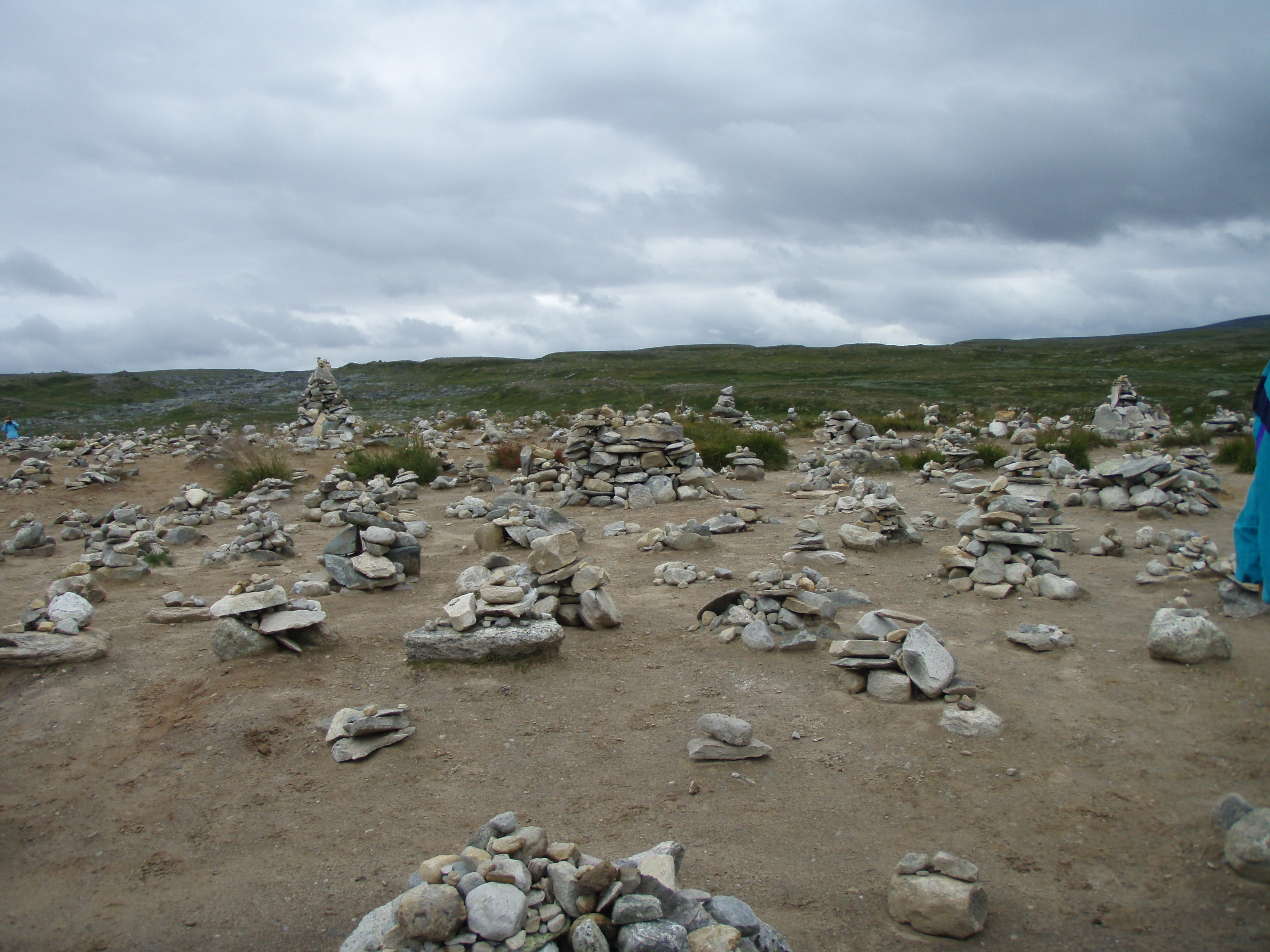 Stone "pyramids" at the polar circle,Norway